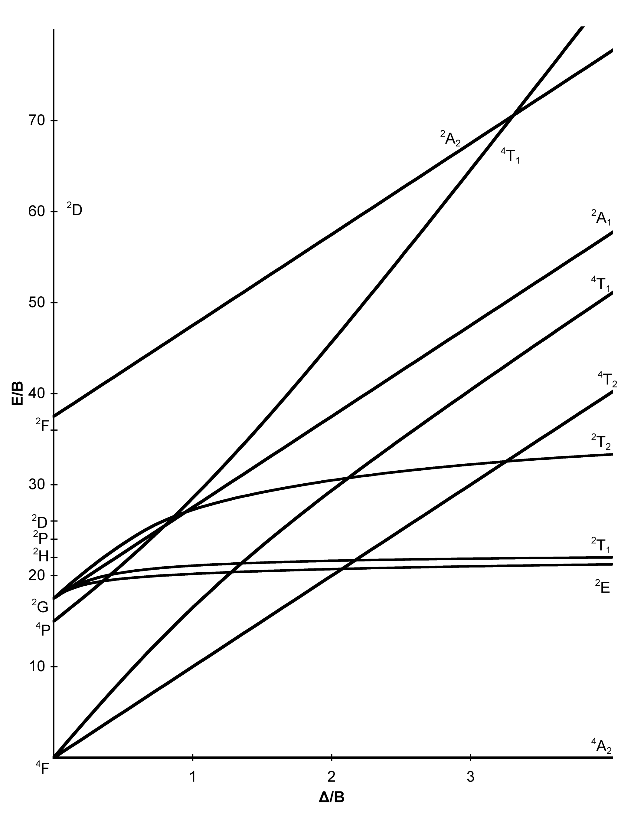 A Tanabe-Sugano diagram for the octahedral d3 electron configuration.